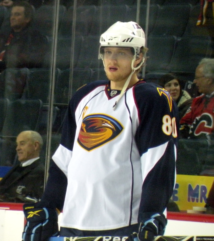 Atlanta Thrashers forward Nik Antropov prior to a National Hockey League game against the Calgary Flames, in Calgary.